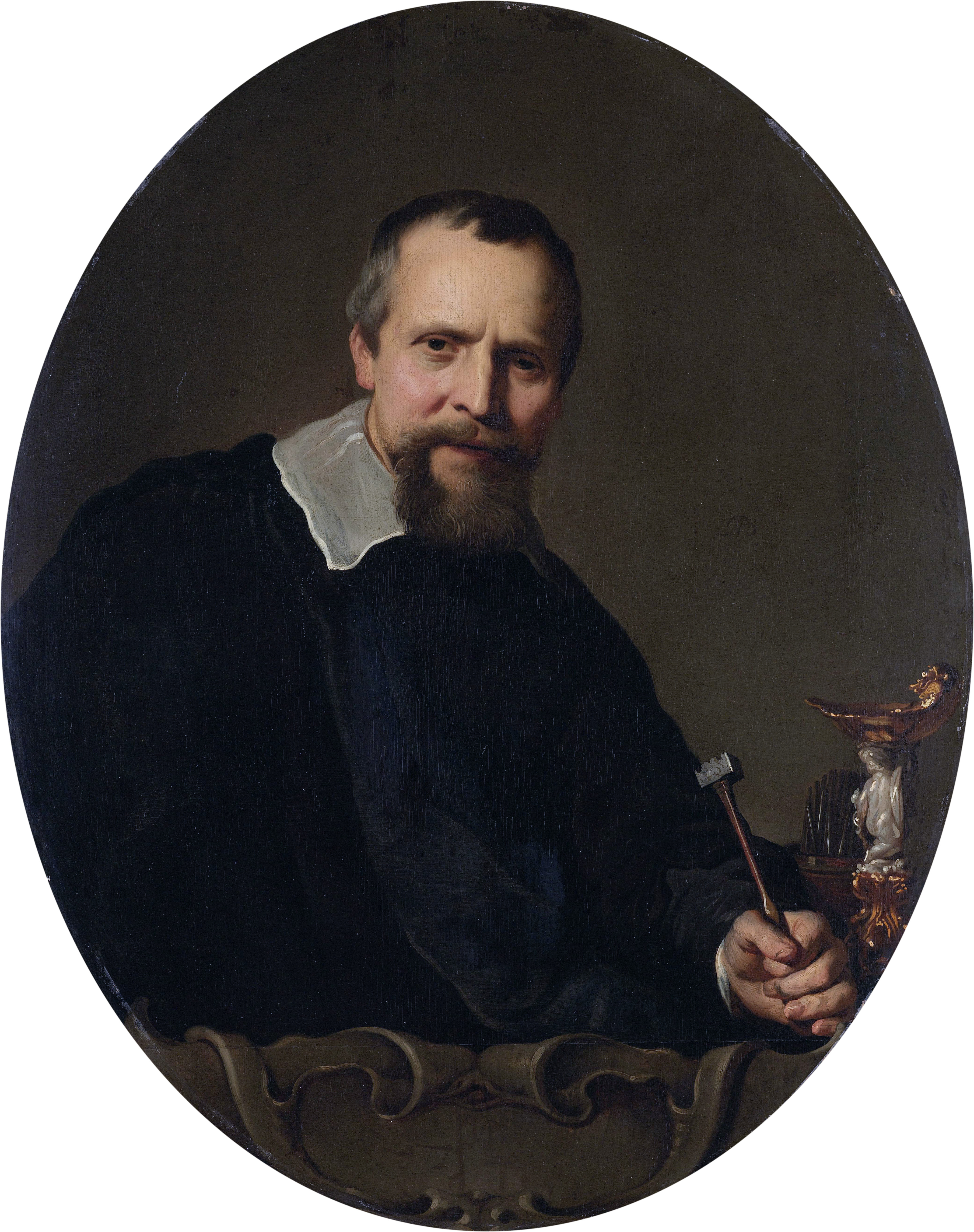 Portrait of Johannes Lutma (I). Pendant of File:Jacob Adriaensz. Backer 002.jpg